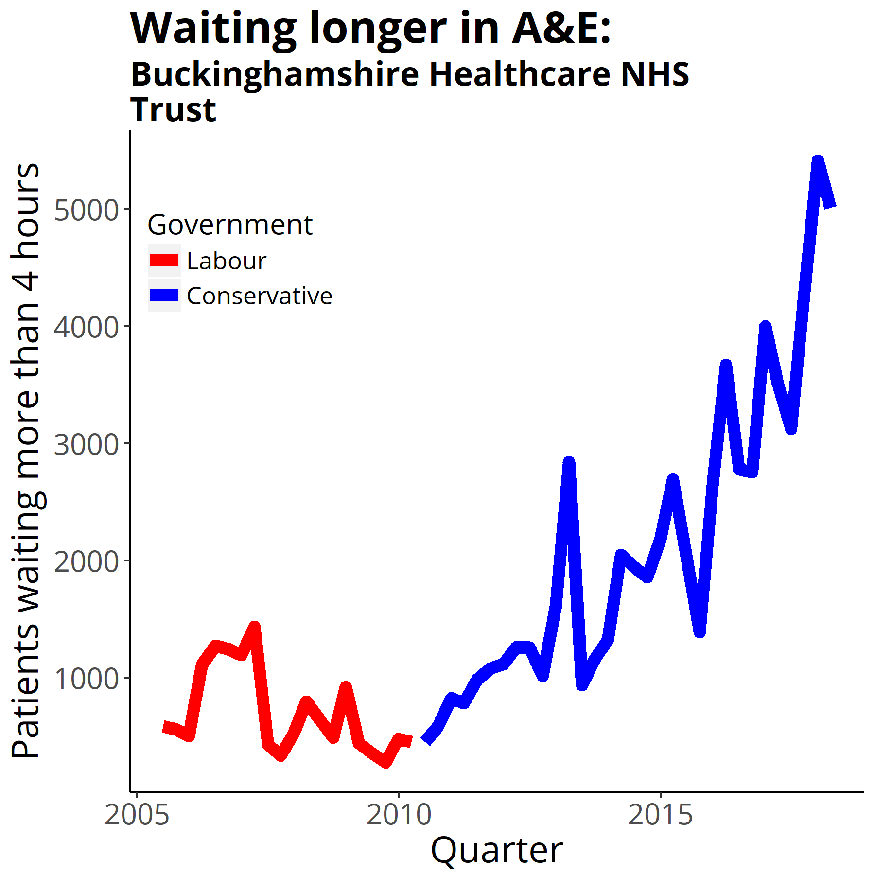 Four-hour target in the emergency department quarterly figures from NHS England Data from